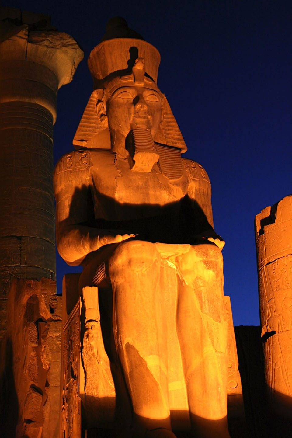 Luxor Temple (Egypt) by night, showing Ramesses II Colossus inside the temple.